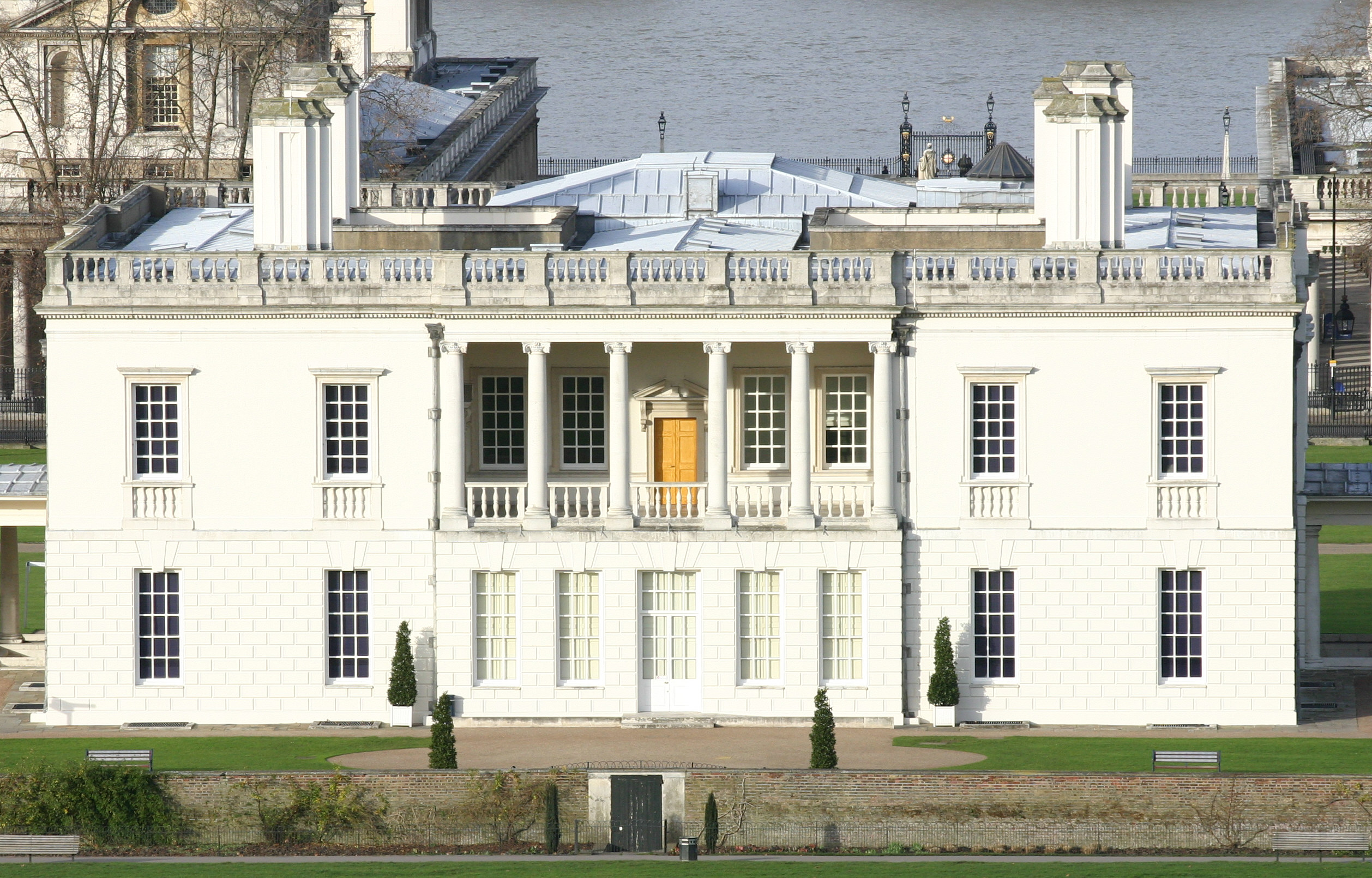 The Queen's House, photographed from Observatory Hill.